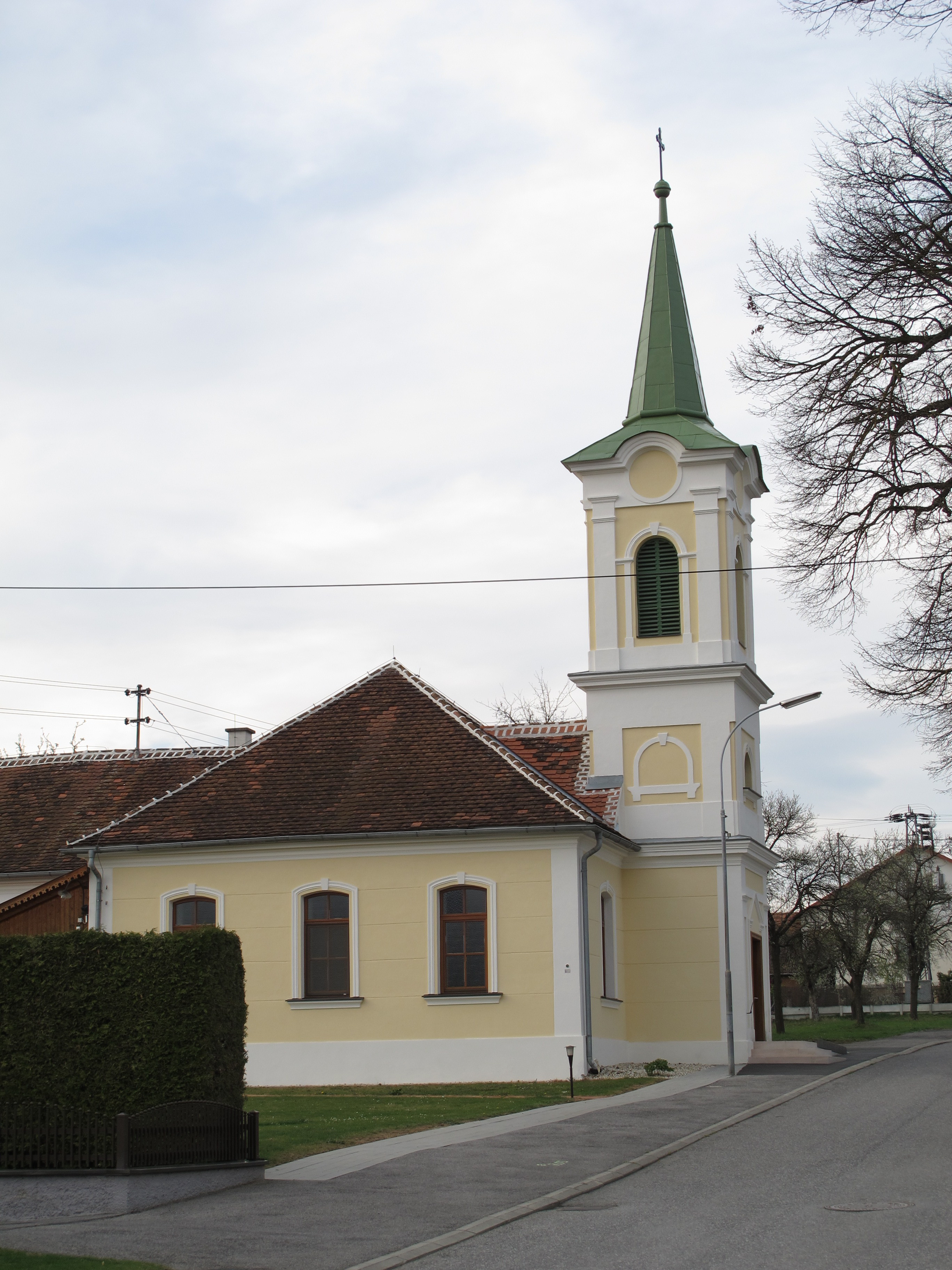 Ehemaliges Schul- und Bethaus Welgersdorf